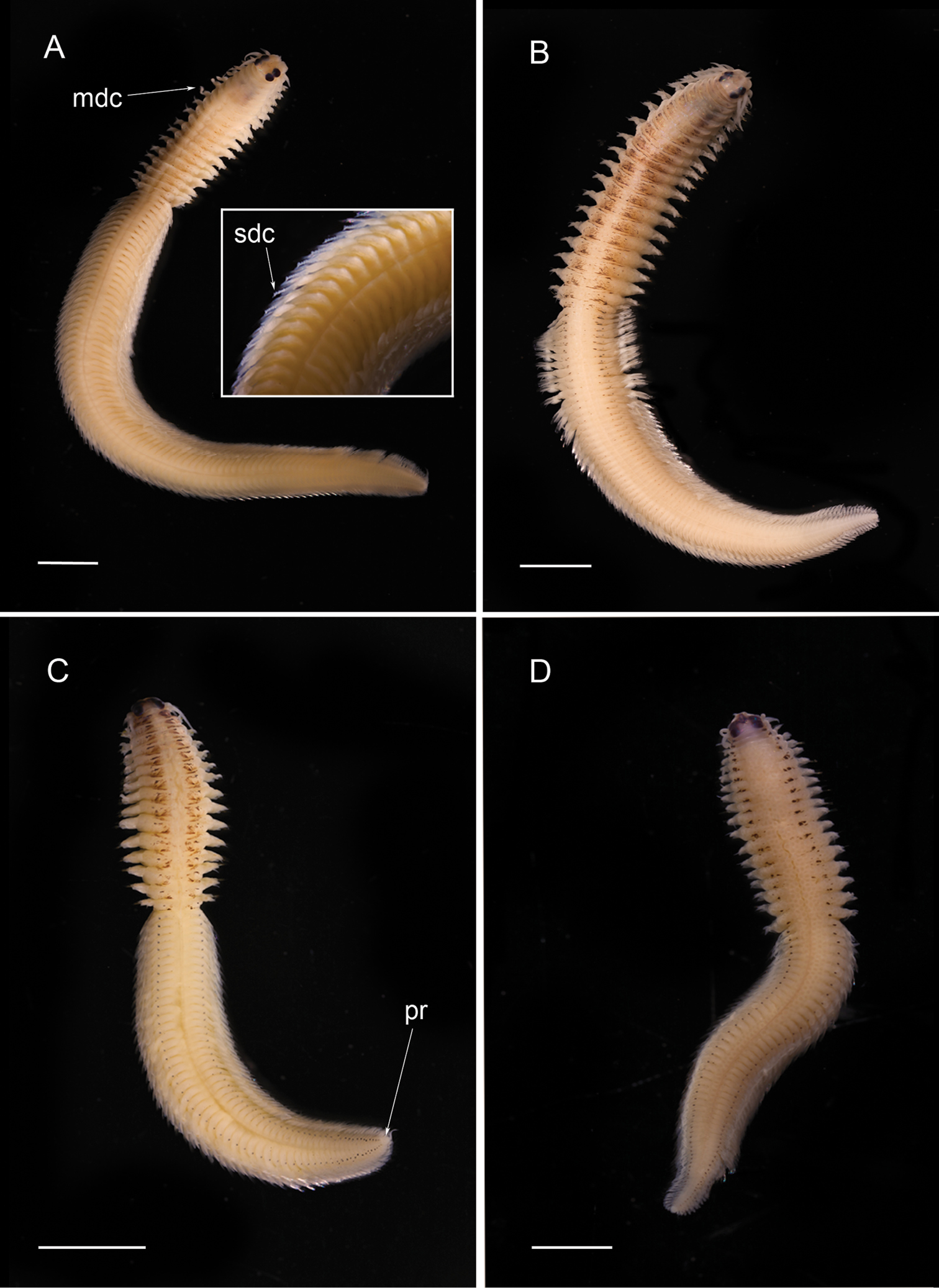 Nereidid epitokes, preserved specimens, dorsal view. A Perinereis helleri, male, inset shows close up of modified parapodia of natatory region B Perinereis helleri, female C Perinereis nigropunctata, male D Perinereis nigropunctata, female. mdc = modified dorsal cirri; sdc = scalloped dorsal cirri; pr = pygidial rosette. Scales bars: 2 mm (A, B), 3 mm (C, D).